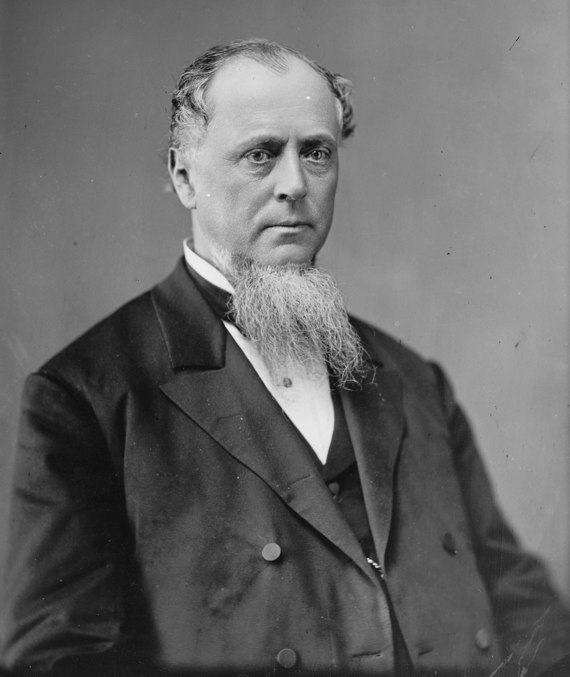 Levi A. Mackey. Library of Congress description: "Mackey, Hon. Levi Augustus of PA".